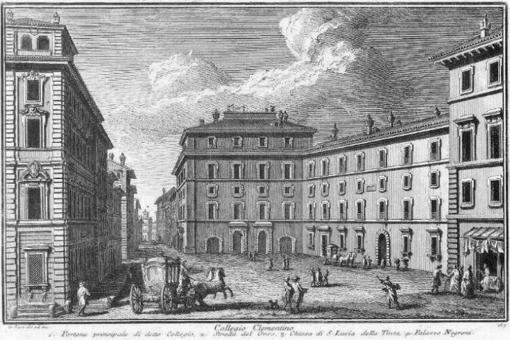 1) Main entrance to Collegio Clementino; 2) Strada dell'Orso (bear); 3) S. Lucia della Tinta; 4) Palazzo Negroni.